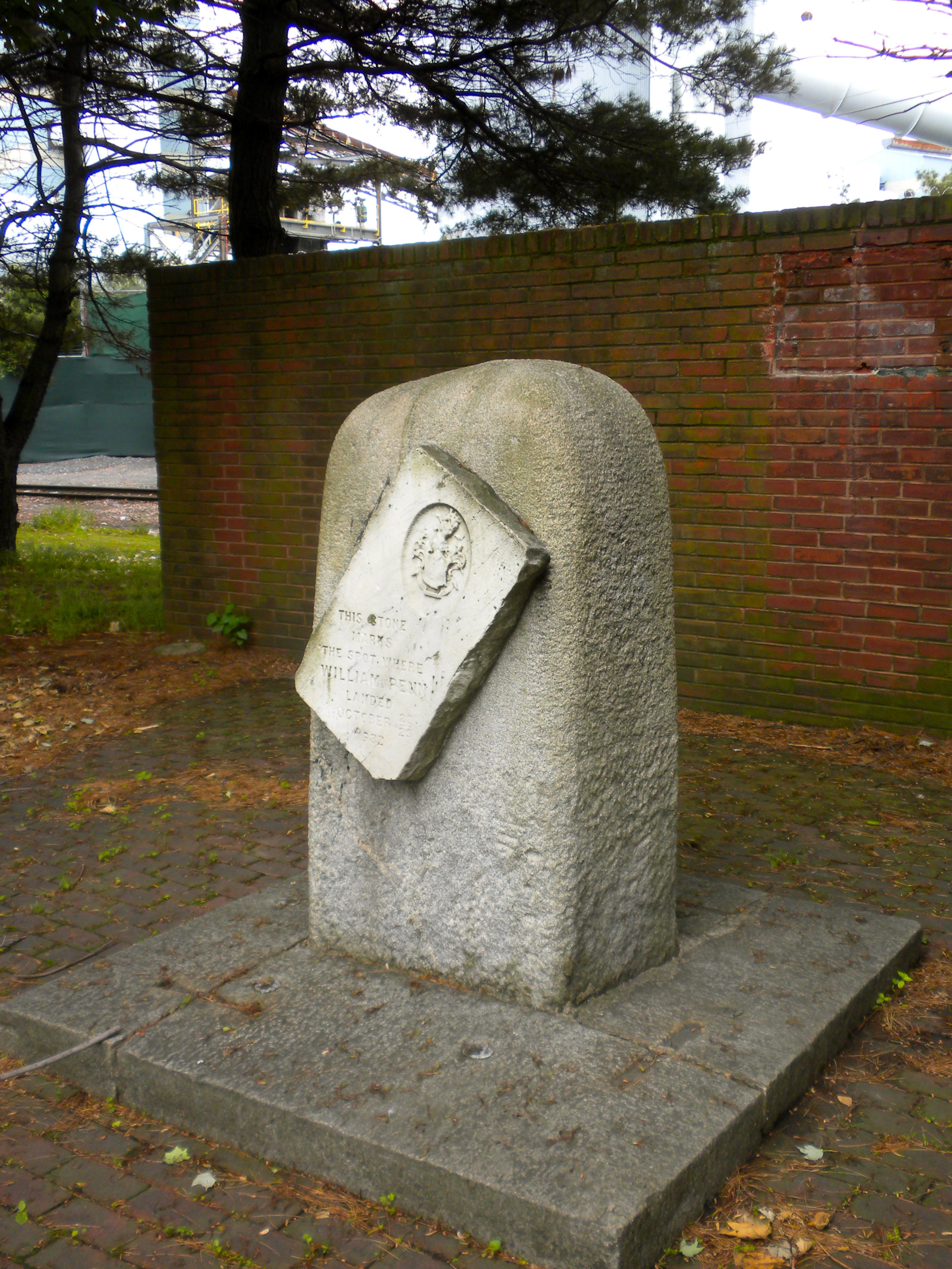 William Penn Landing Site on NRHP since March 11, 1971. At Penn and Front (1st) Streets or 2nd Street near the banks of the Delaware River in Chester, Pennsylvania. This marks the spot where Penn first stepped ashore in Pennsylvania on Oct. 28 or 29, 1682 (O.S.). The monument was erected 200 years later. Today, it is an industrial area with a railroad and factory behind it